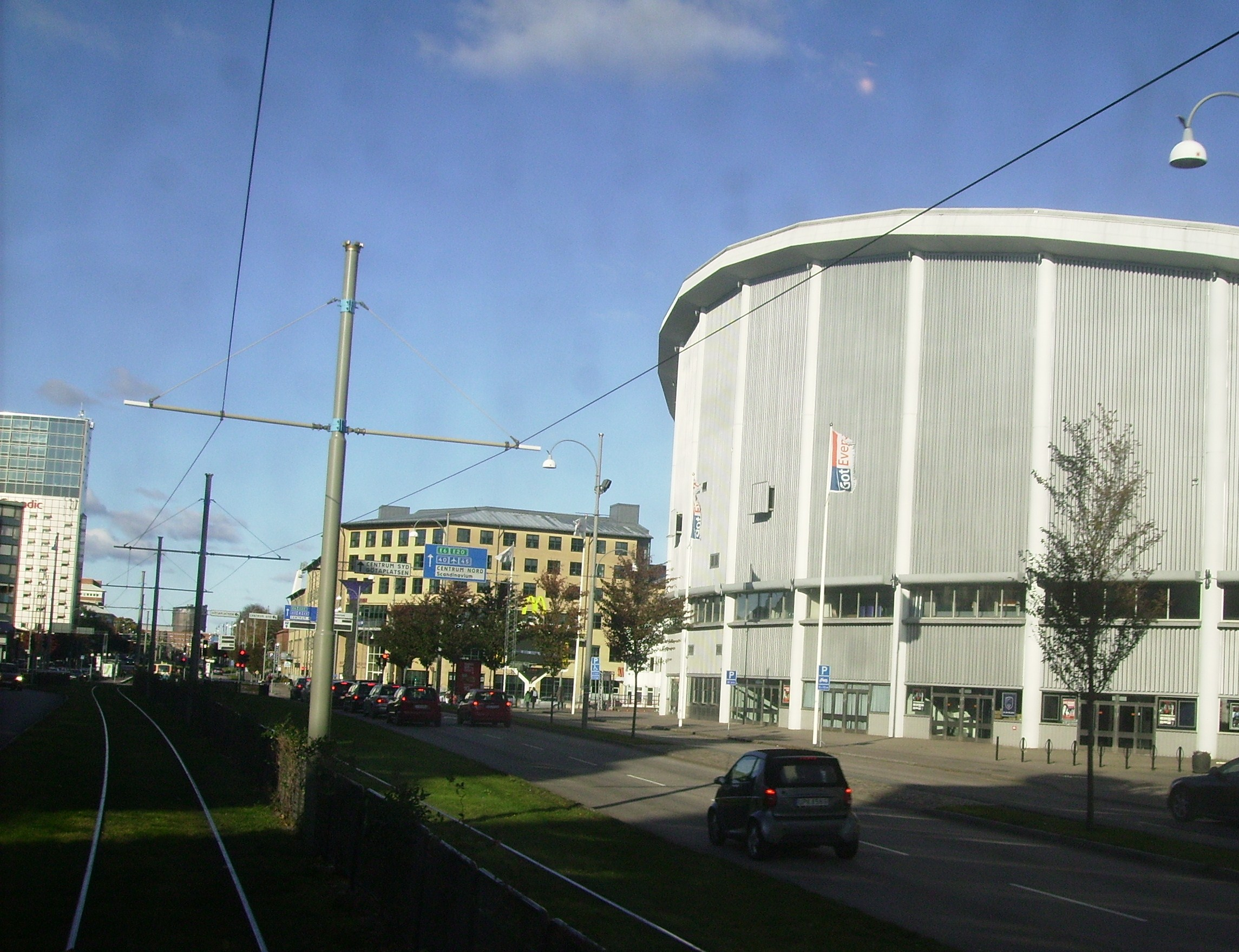 Picture of Scandinavium by Evenemangsstråket in Göteborg